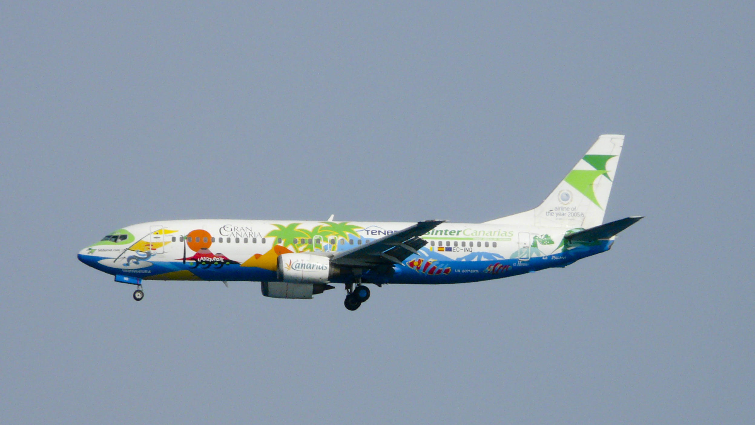 Binter Canarias Boeing 737.